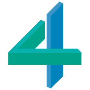 This logo was used during TV4's broadcast before the success of C4.